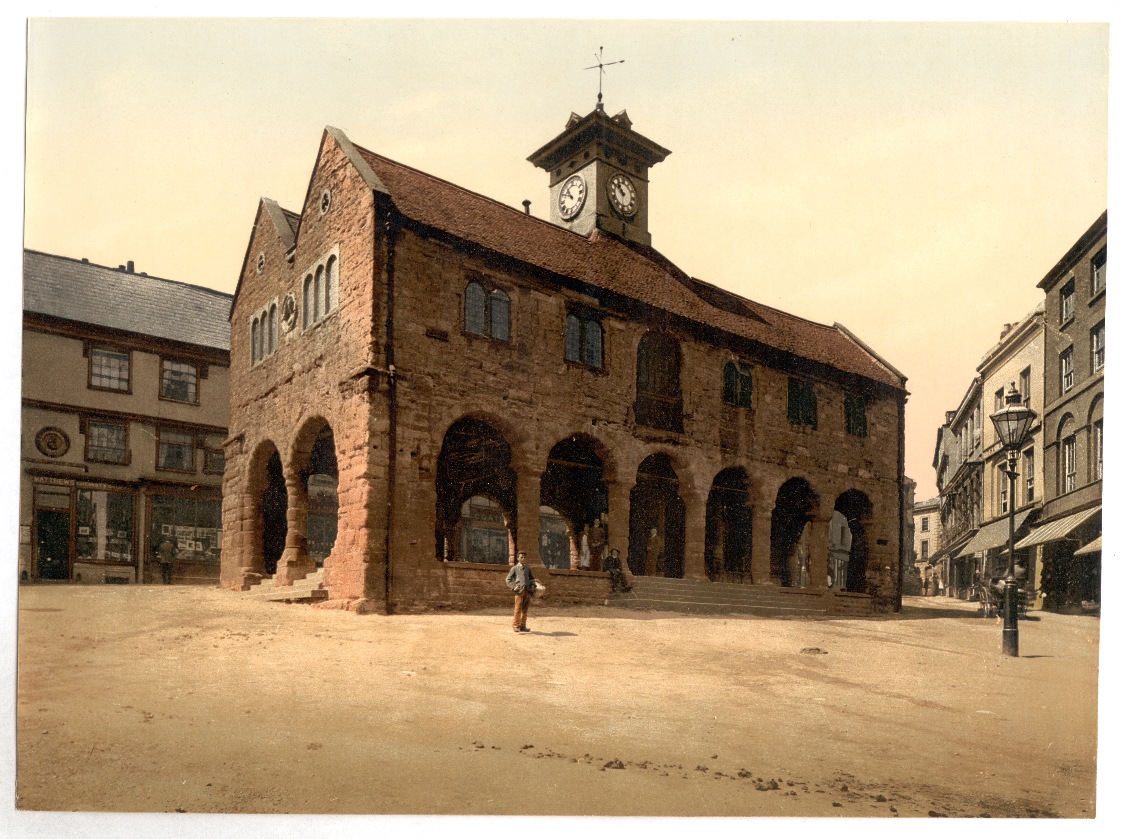 Print no. "10939".; More information about the Photochrom Print Collection is available at Title from the Detroit Publishing Co., Catalogue J-foreign section, Detroit, Mich. : Detroit Publishing Company, 1905.; Forms part of: Views of the British Isles, in the Photochrom print collection.